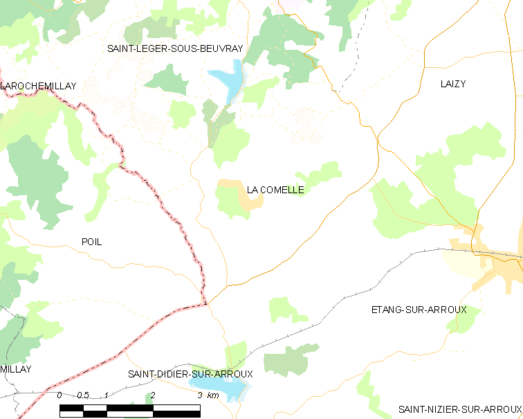 Map of French municipality